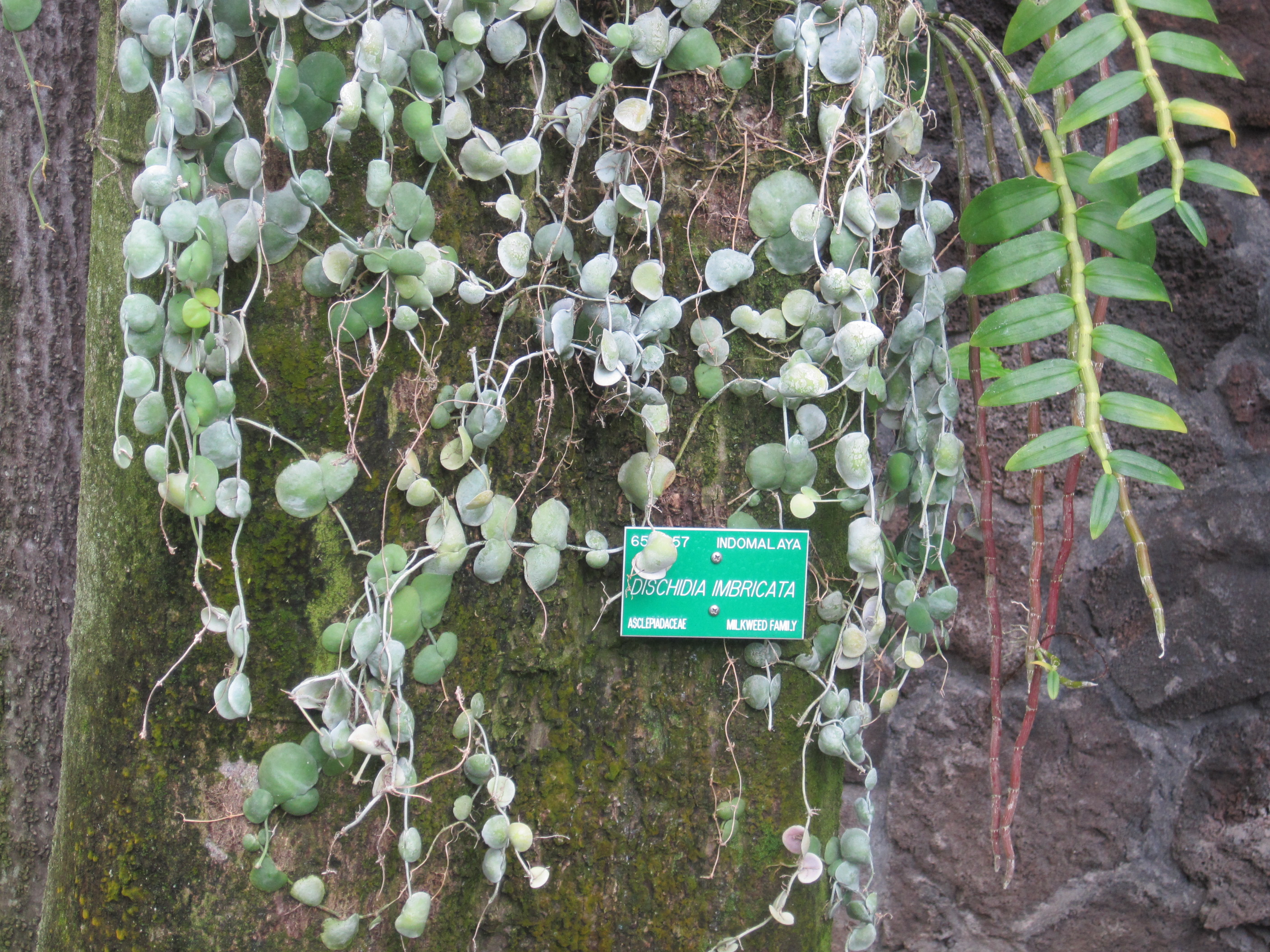 Dischidia imbricata (Milkweed family, Asclepiadaceae) on Millettia pinnata trunk, Foster Botanical Garden, Honolulu, Hawaii